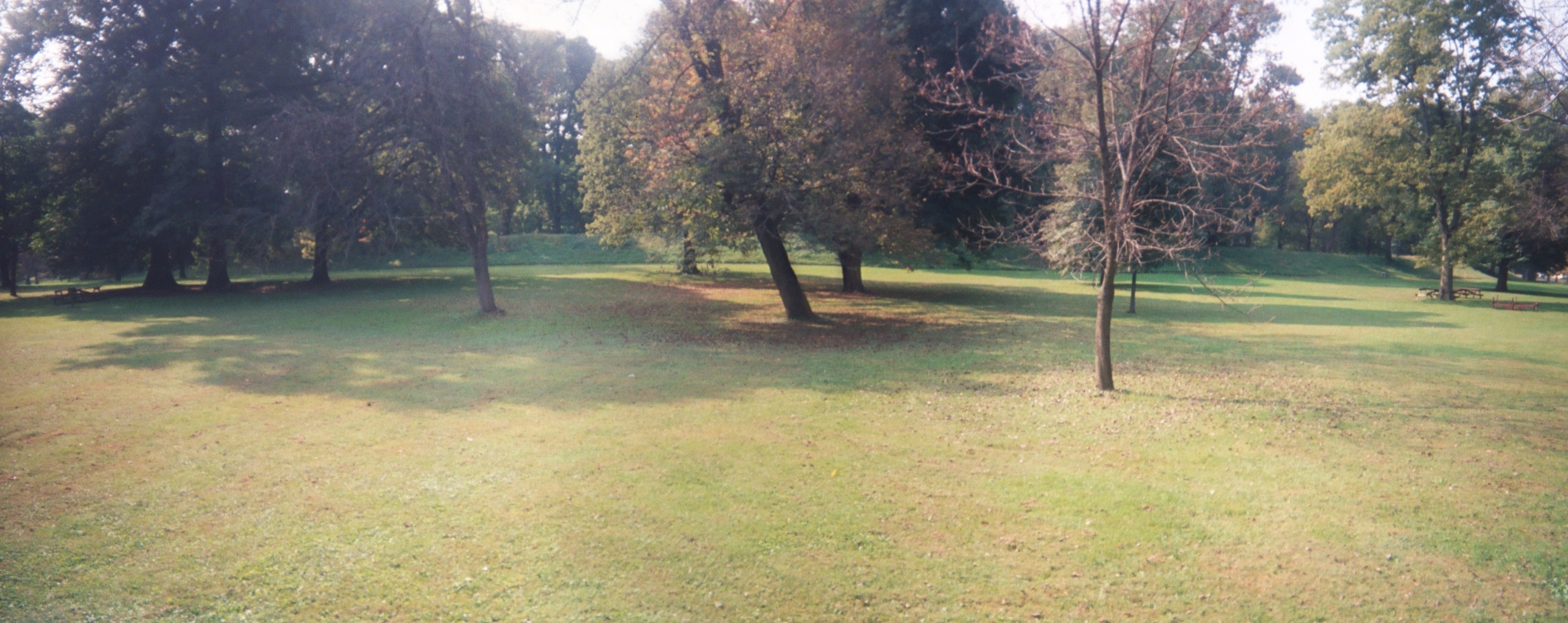 Great Circle Earthworks, part of the Newark Earthworks in Newark, Ohio, built by the Hopewell culture from 100 BC to 500 AD.